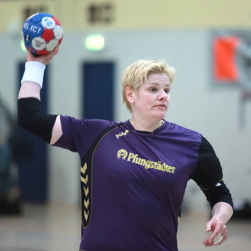 Miroslava Ritskiavitchius, German handball player born in Lithuania, playing for FSG Crumstadt/Goddelau on 10 April 2011.